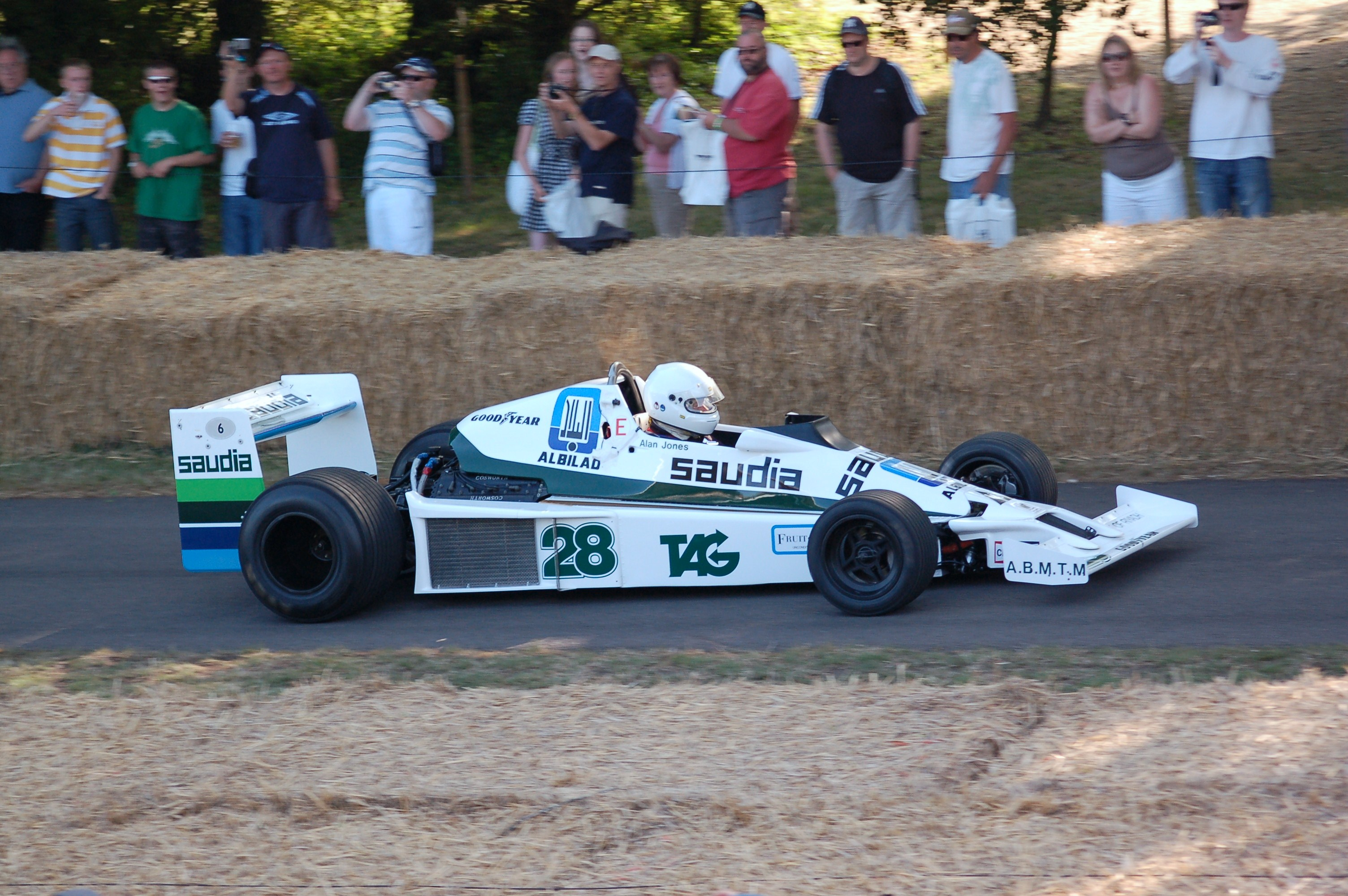 A 1978 Williams-Ford FW06 being demonstrated at the Goodwood Festival of Speed.